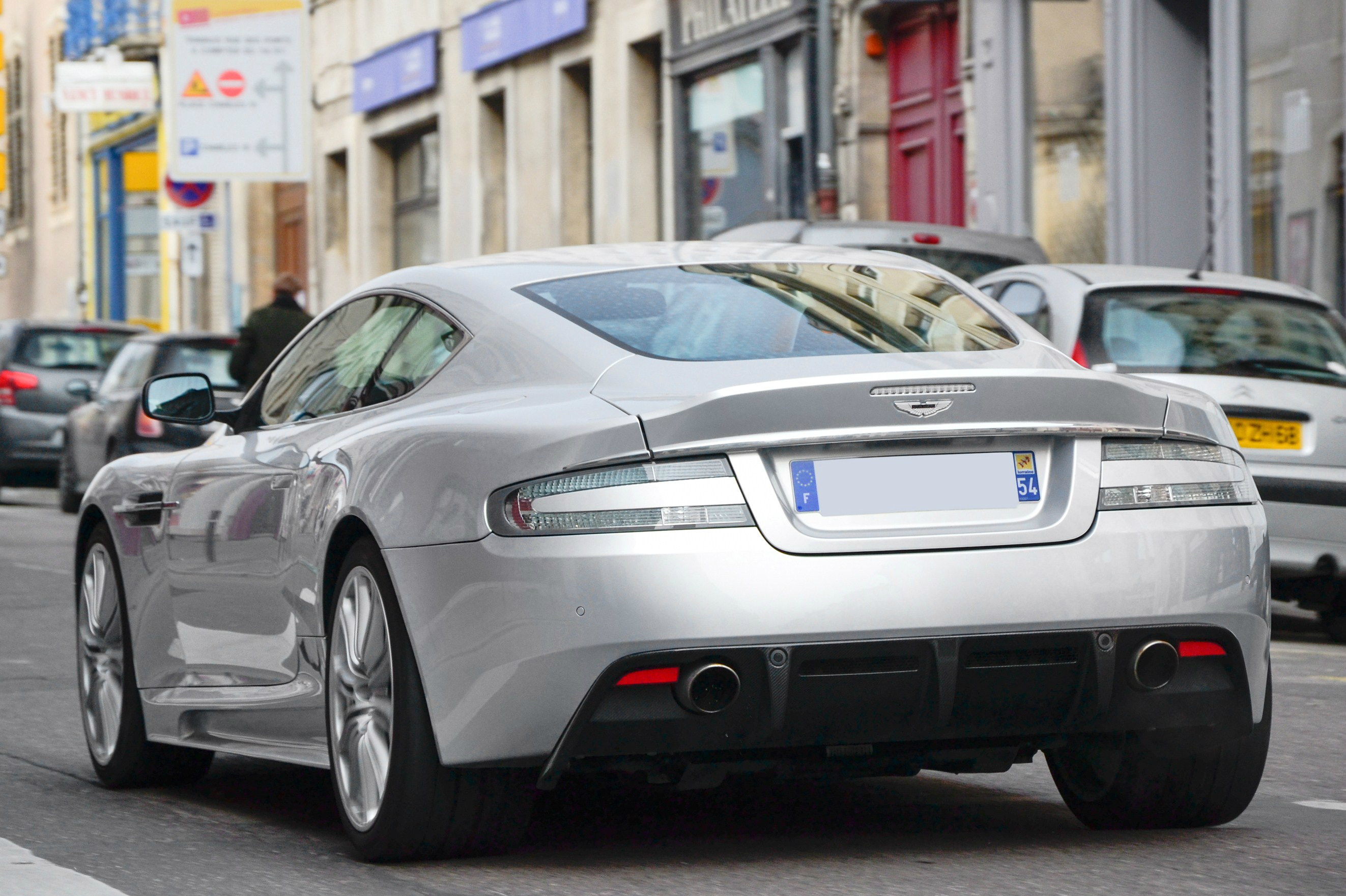 Aston Martin DBS coupé in France.